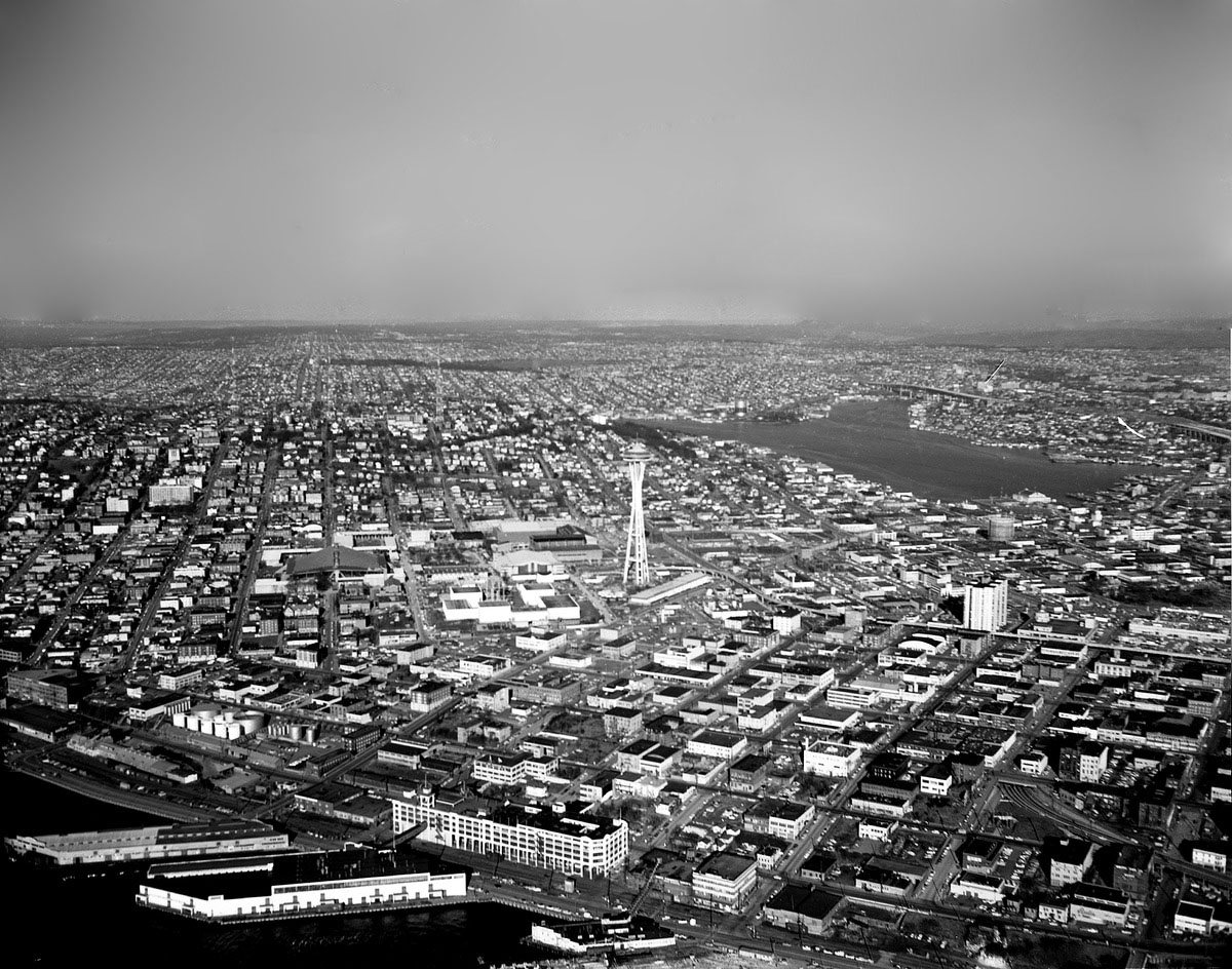 Aerial view of Century 21 Exposition grounds and environs, Seattle, Washington, USA, 1962. Item 165657, City Light Photographic Negatives (Record Series 1204-01), Seattle Municipal Archives.